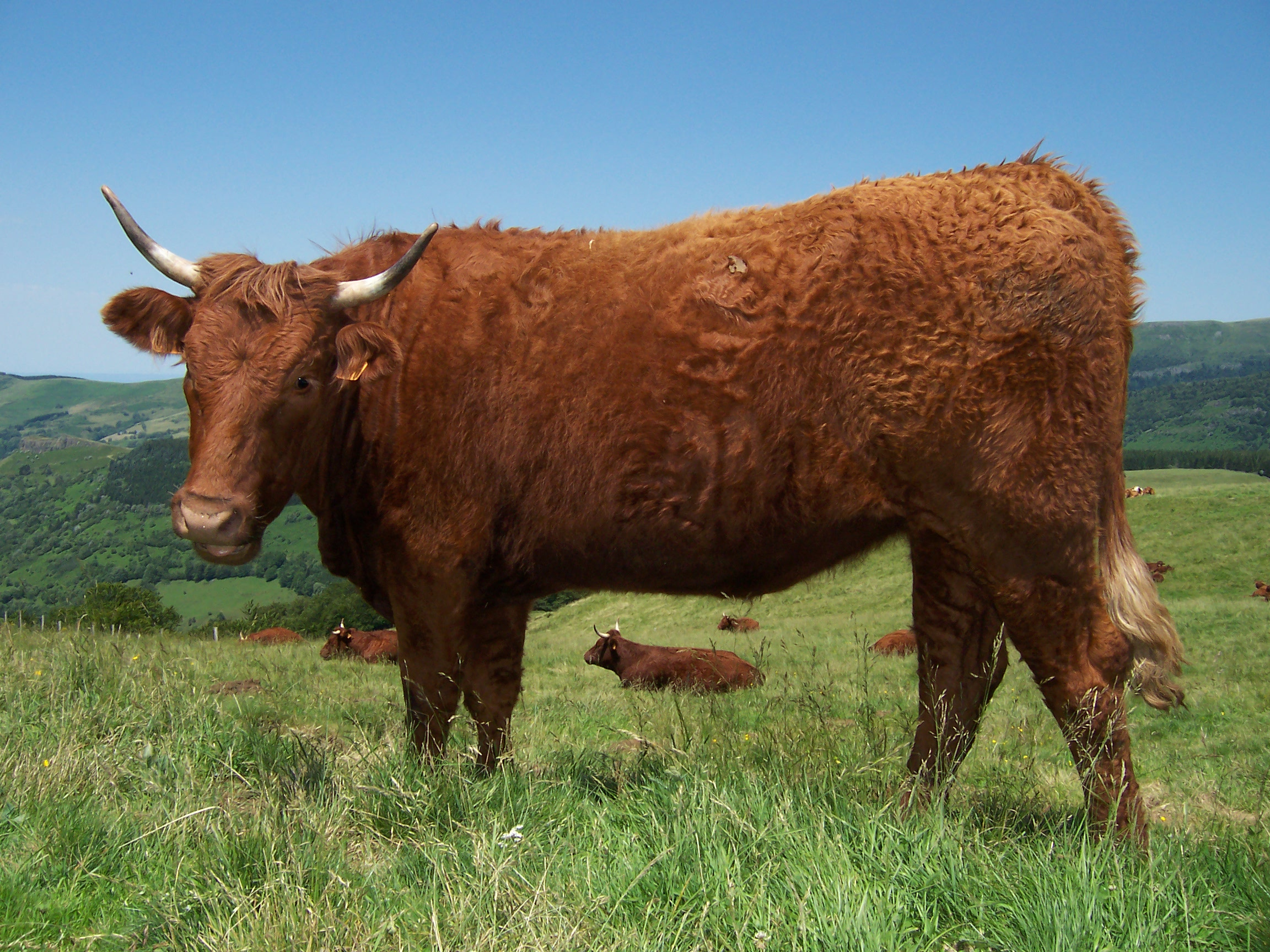 Salers breed cow in the Monts du Cantal mountains in Cantal, France.